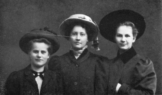 Photograph of the Finnish writers Liisu Poijärvi (1886–1950), Esteri Haapanen (1886–1976) and Bertta Poijärvi.